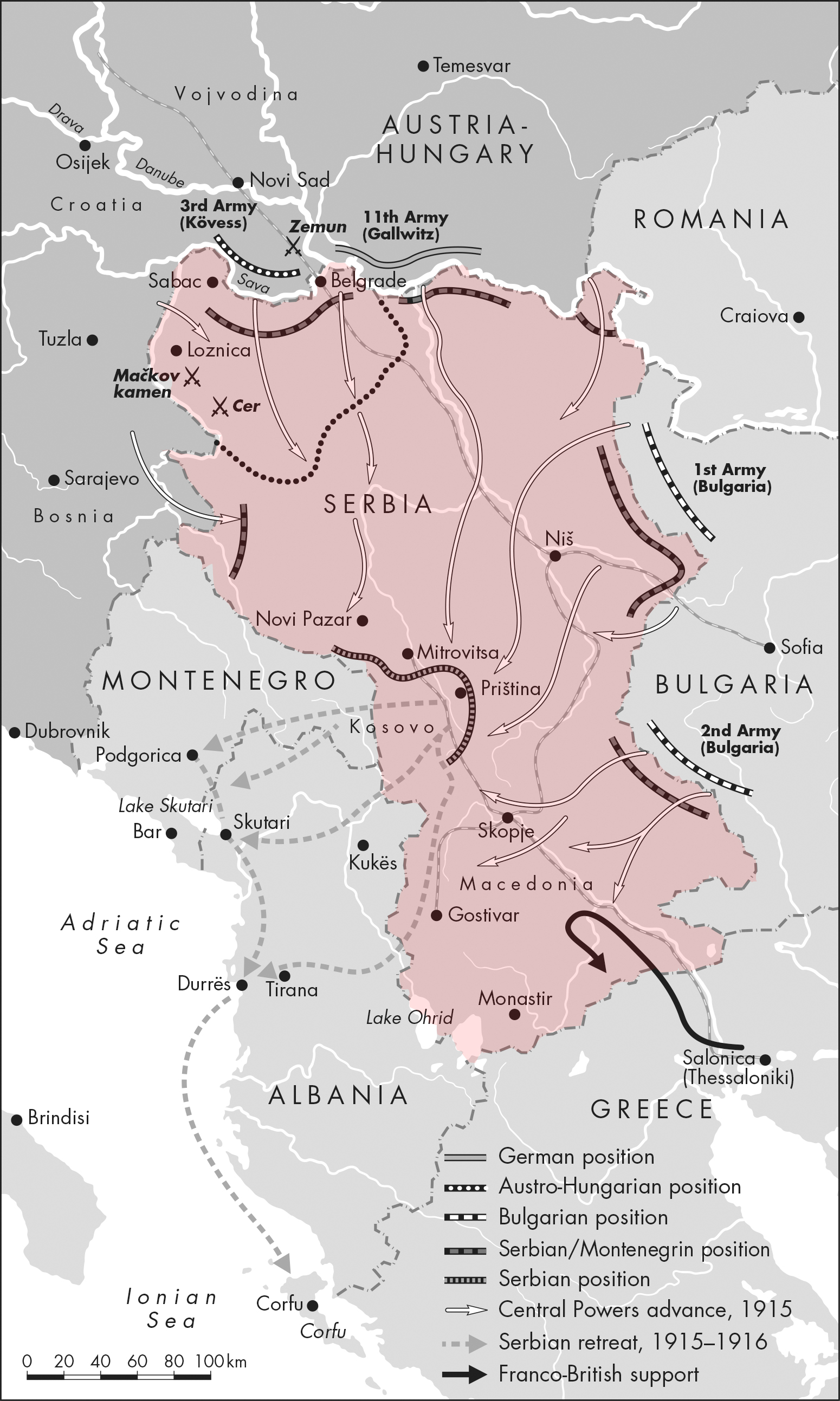 Map of the combined German, Austro-Hungarian, and Bulgarian invasion of Serbia in 1915 (based on map from Pandora’s box a history of the First World War by Jörn Leonhard)